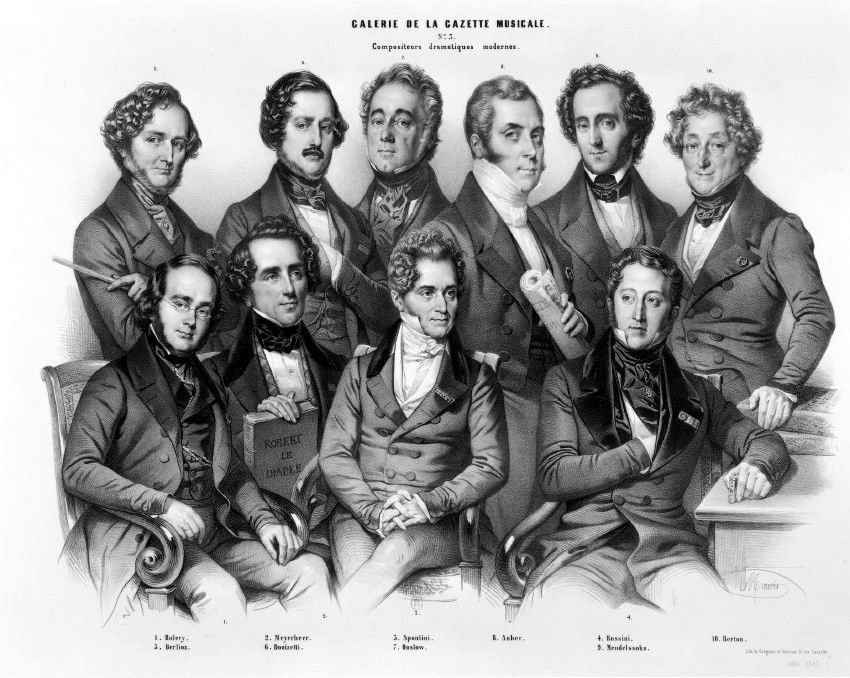 Composers active in Paris in 1844